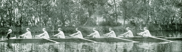 1895 Cornell varsity crew (Henley) on the Thames River: (L to R) F. D. Colson, T. Hall, C. A. Louis, G. P. Dyer, T. F. Fennell, F. W. Freeborn, E. C. Hager, E. O. Spillman, M. W. Roe